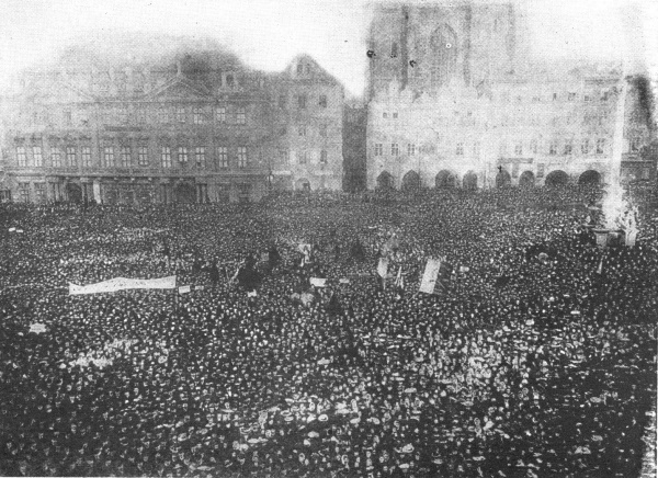 Demonstration for universal right to vote in Prague in the Old Town Square on the 28th of November 1905